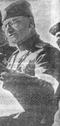 Milutin Đ. Nedić (26 October 1882 – 1945), Serbian general.